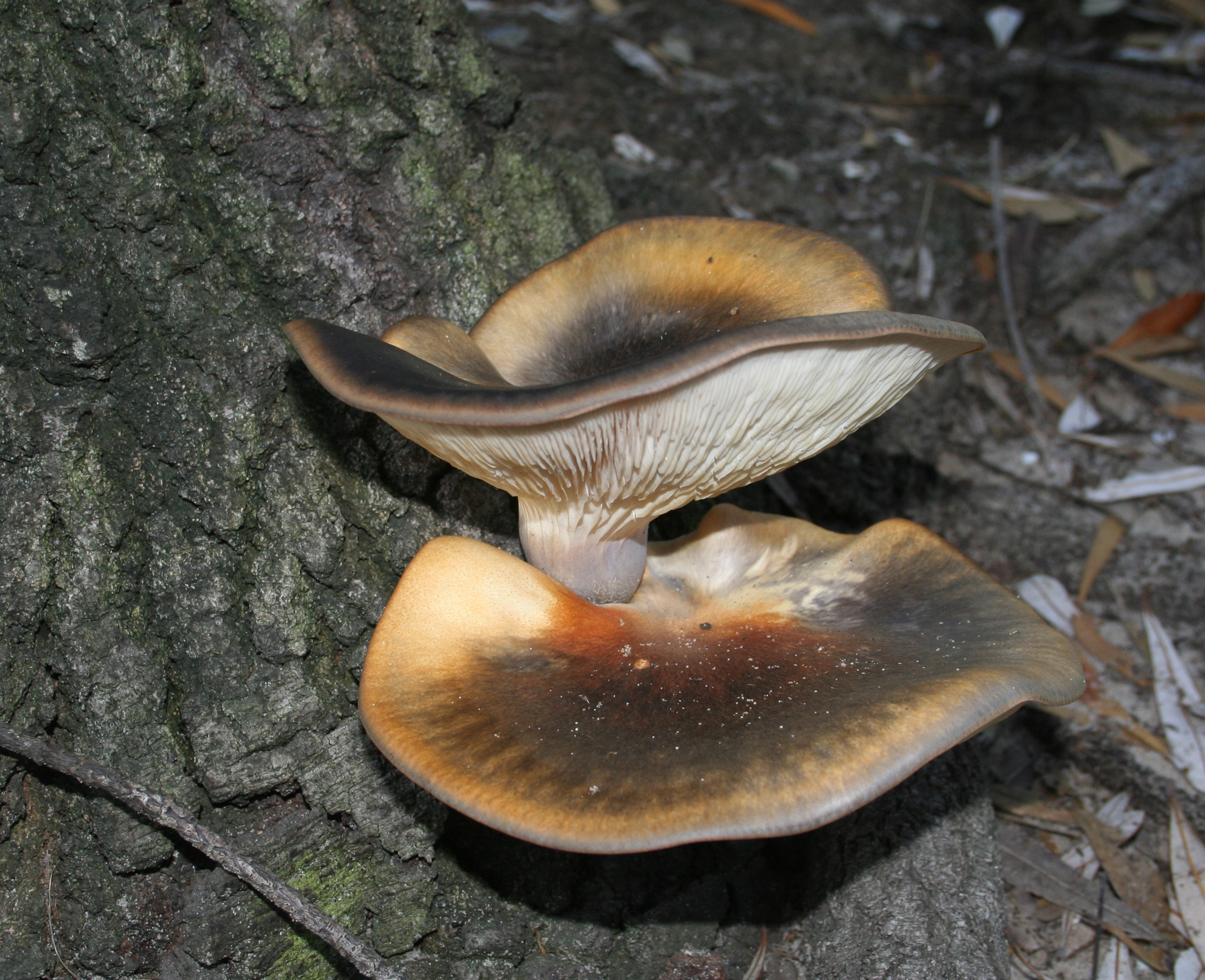 Omphalotus nidiformis, darker pigmented fruiting body, on dead wood, Sir Joseph Banks park, Botany (Sydney), NSW